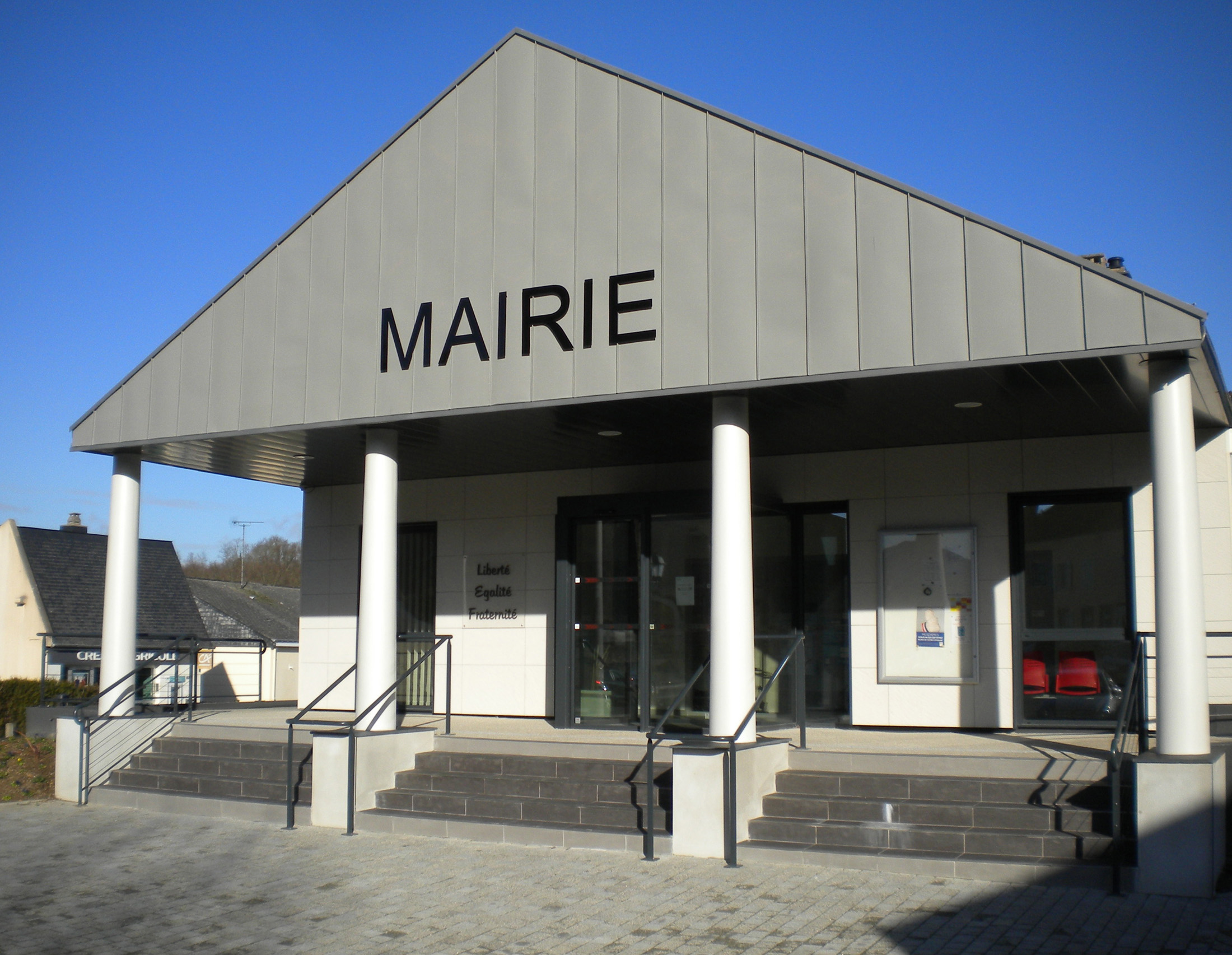 The new Town Hall of Entrammes (53), Mayenne, France